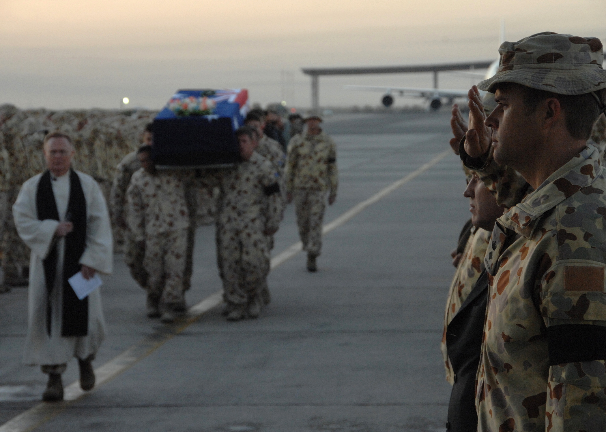 Members of the 387th Air Expeditionary Group pay their respect along with coalition partners during the reparation ceremony for Australian Private Gregory Michael Sher, on Jan. 7th as he is carried to an Australian C-17 at an air base in Southwest Asia. Private Sher was killed by a rocket attack in Southern Afghanistan, making him the first Australian Defense Force soldier to be killed by indirect fire since 1992.